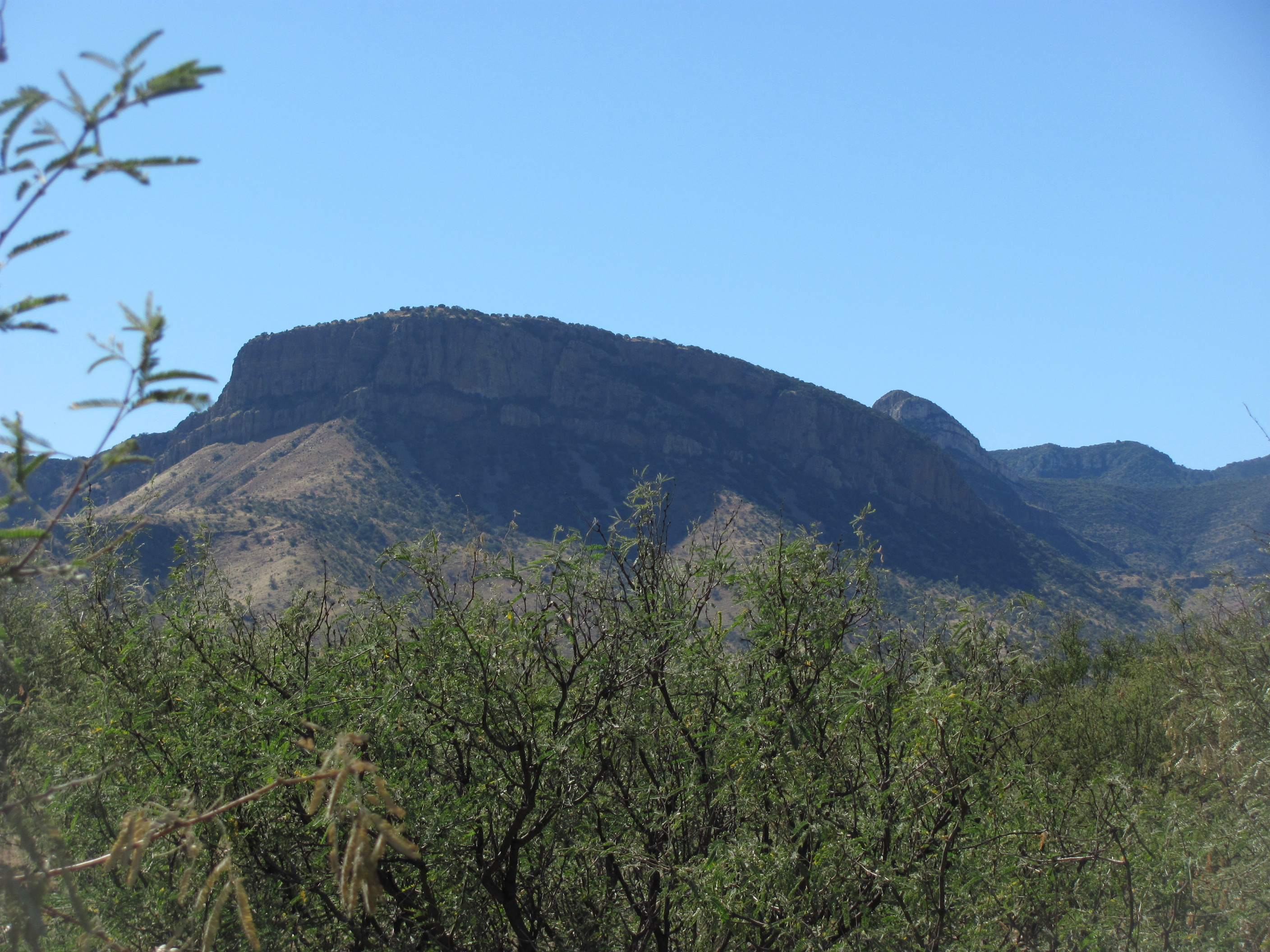 Apache Peak from the entrance to Kartchner Caverns, Cochise County, Arizona